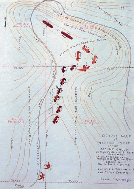 Map of the Marching Bear Mounds (then called Pleasant Ridge Mound Group) at Effigy Mounds National Monument, Iowa, USA